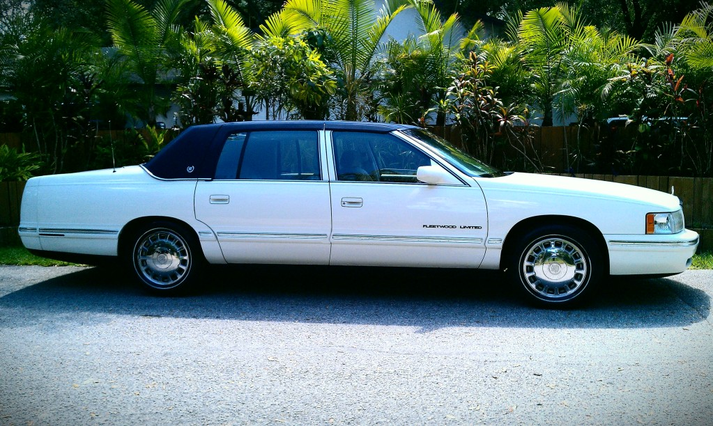 99' Fleetwood Limited